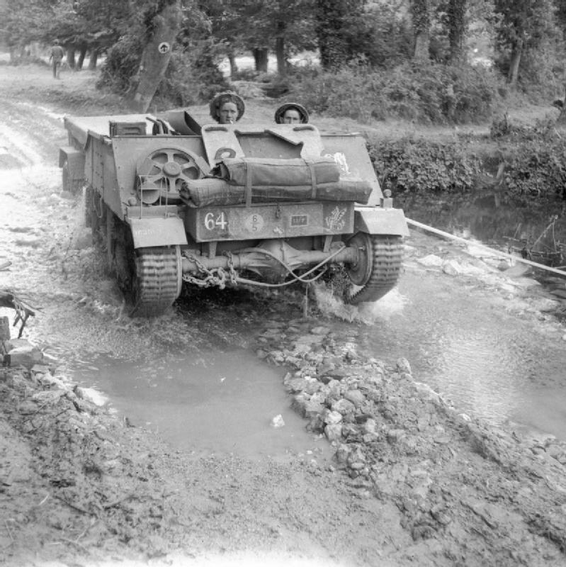 The British Army in Normandy 1944 A Loyd carrier of 8th Middlesex Regiment, the machine gun battalion of 43rd Wessex Division, advances during operations in the Odon valley, west of Caen, 16 July 1944.